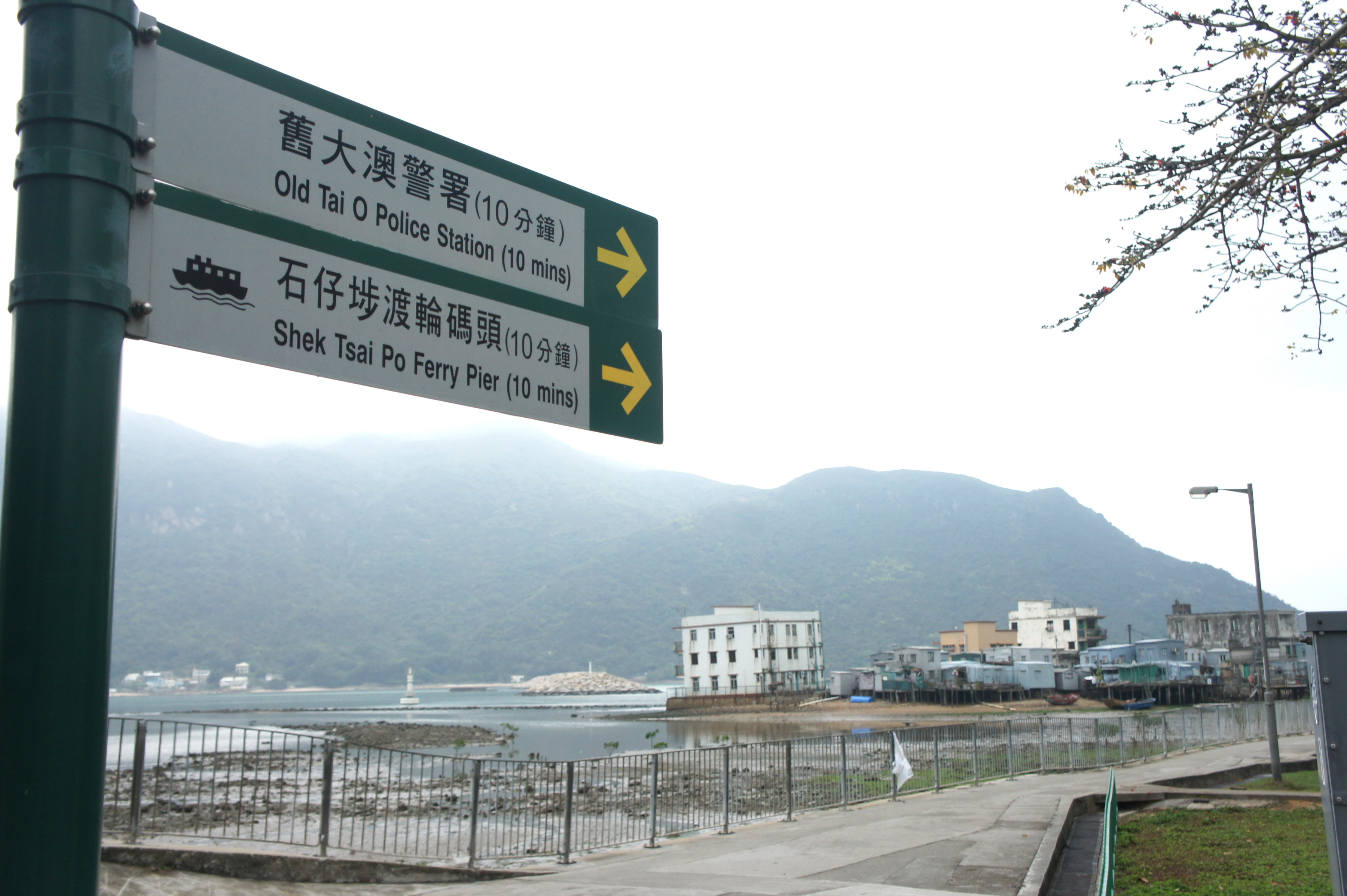 A road sign on Shek Tsai Po Street indicating the direction to the Old Tai O Police Station and Shek Tsai Po Ferry Pier.